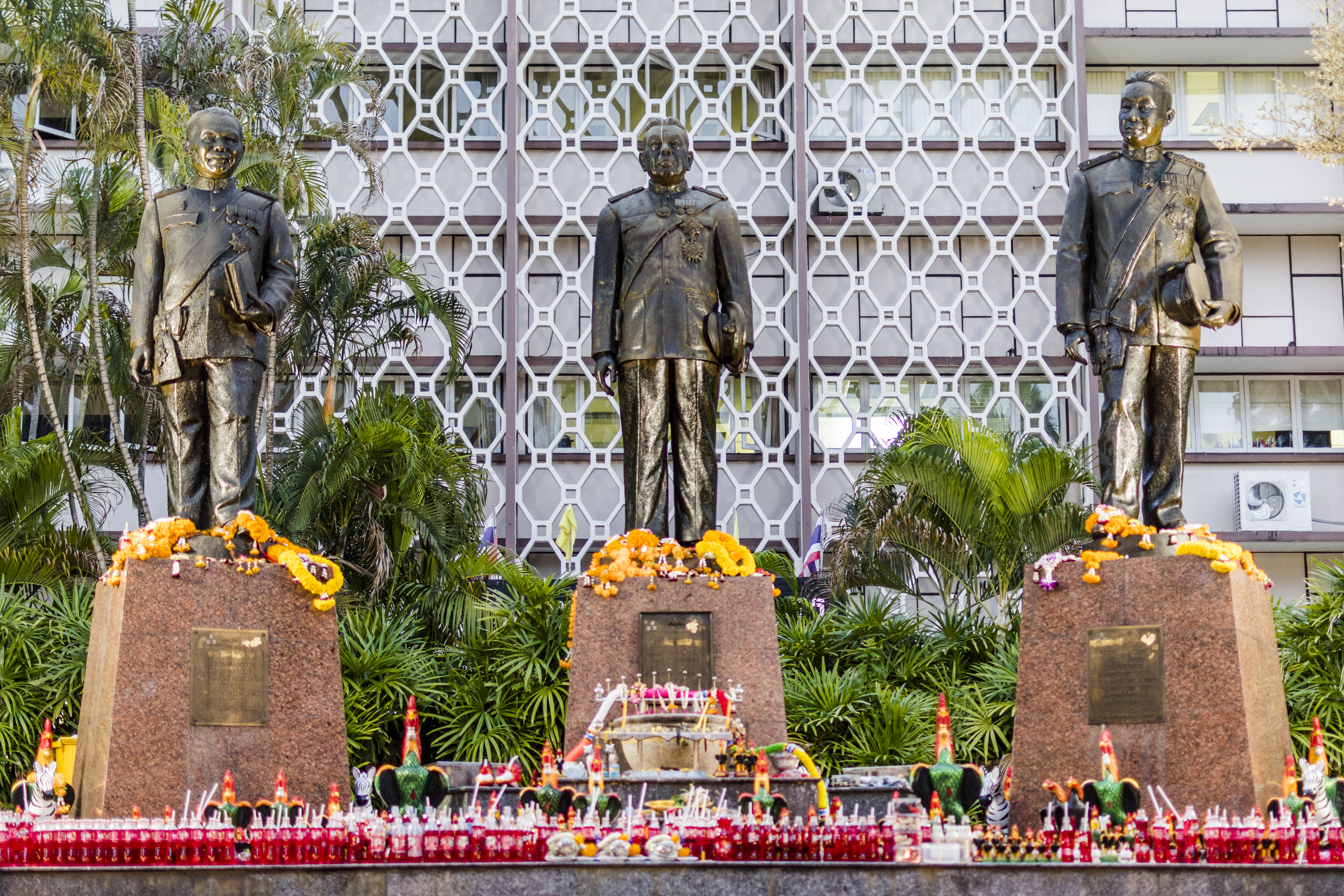 "The Three Co-founders" statue, depicting the three founders of Kasetsart University.